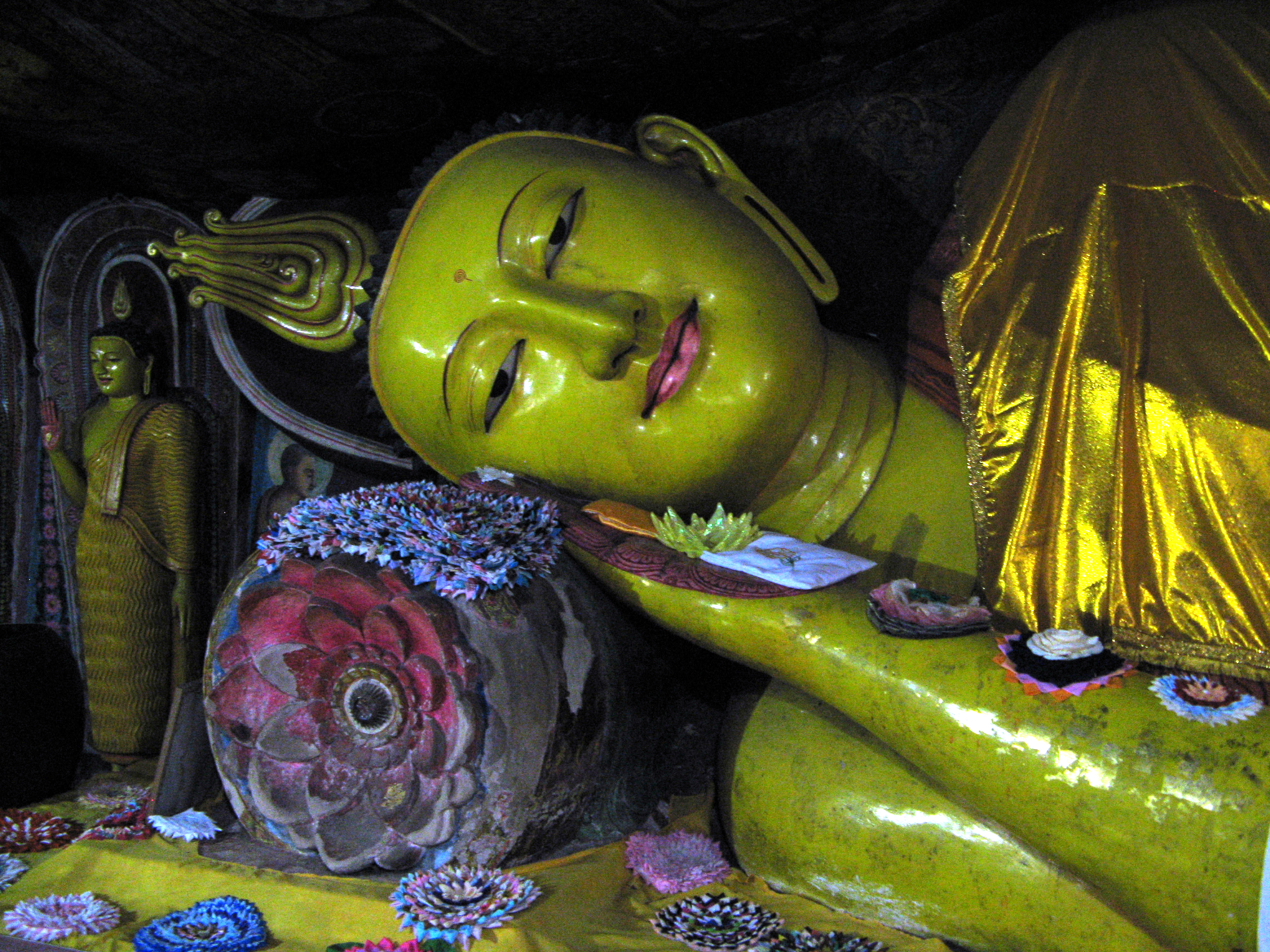 This is a modern statue of the Reclining Buddha from the ancient monastery of Aluvihara in Sri Lanka.